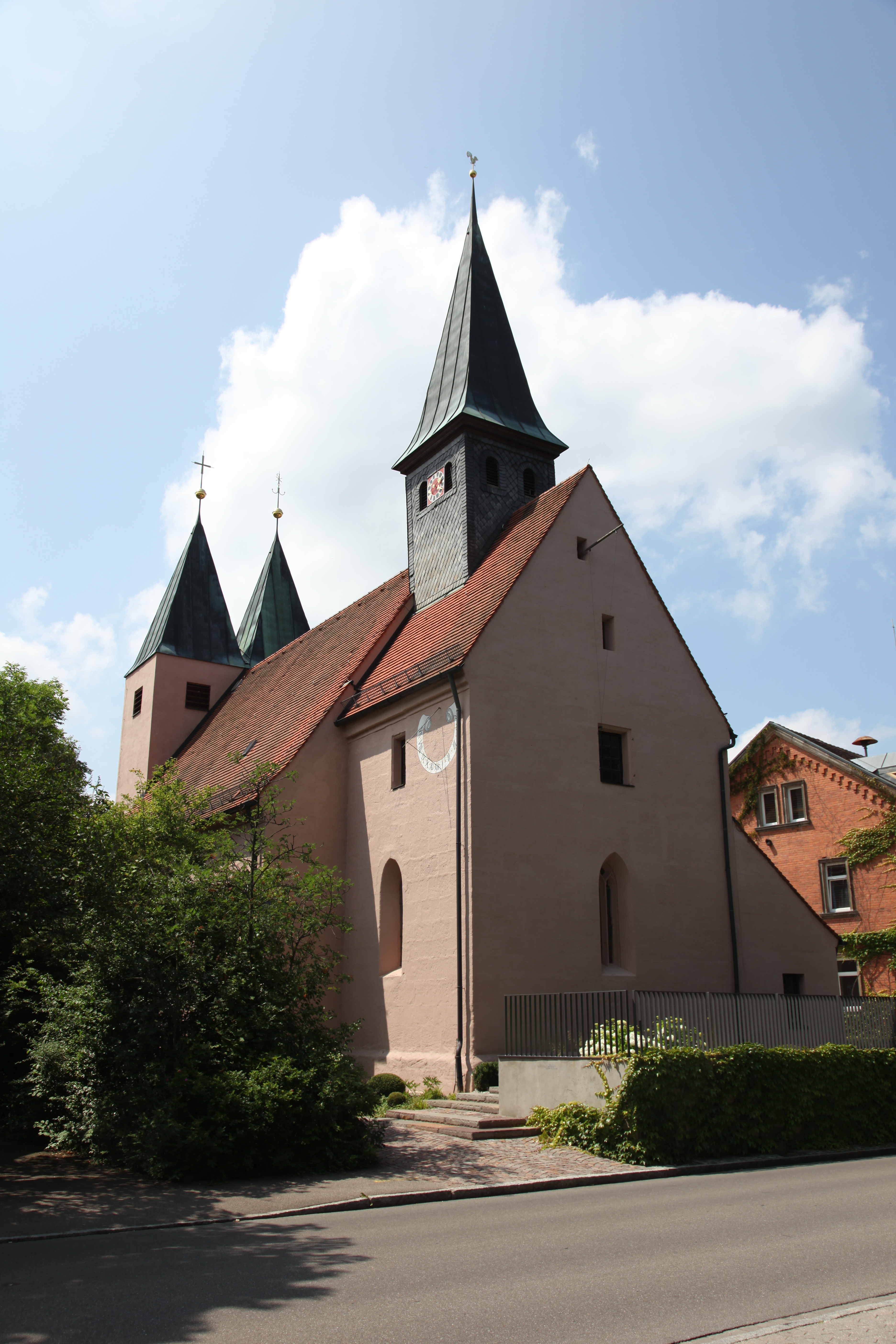 Church in Rednitzhembach